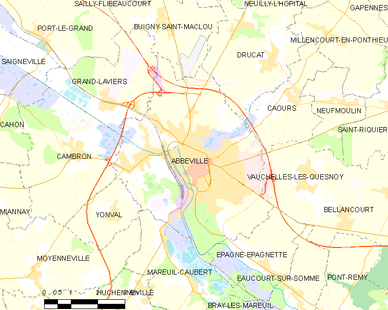 Map of French municipality Abbeville